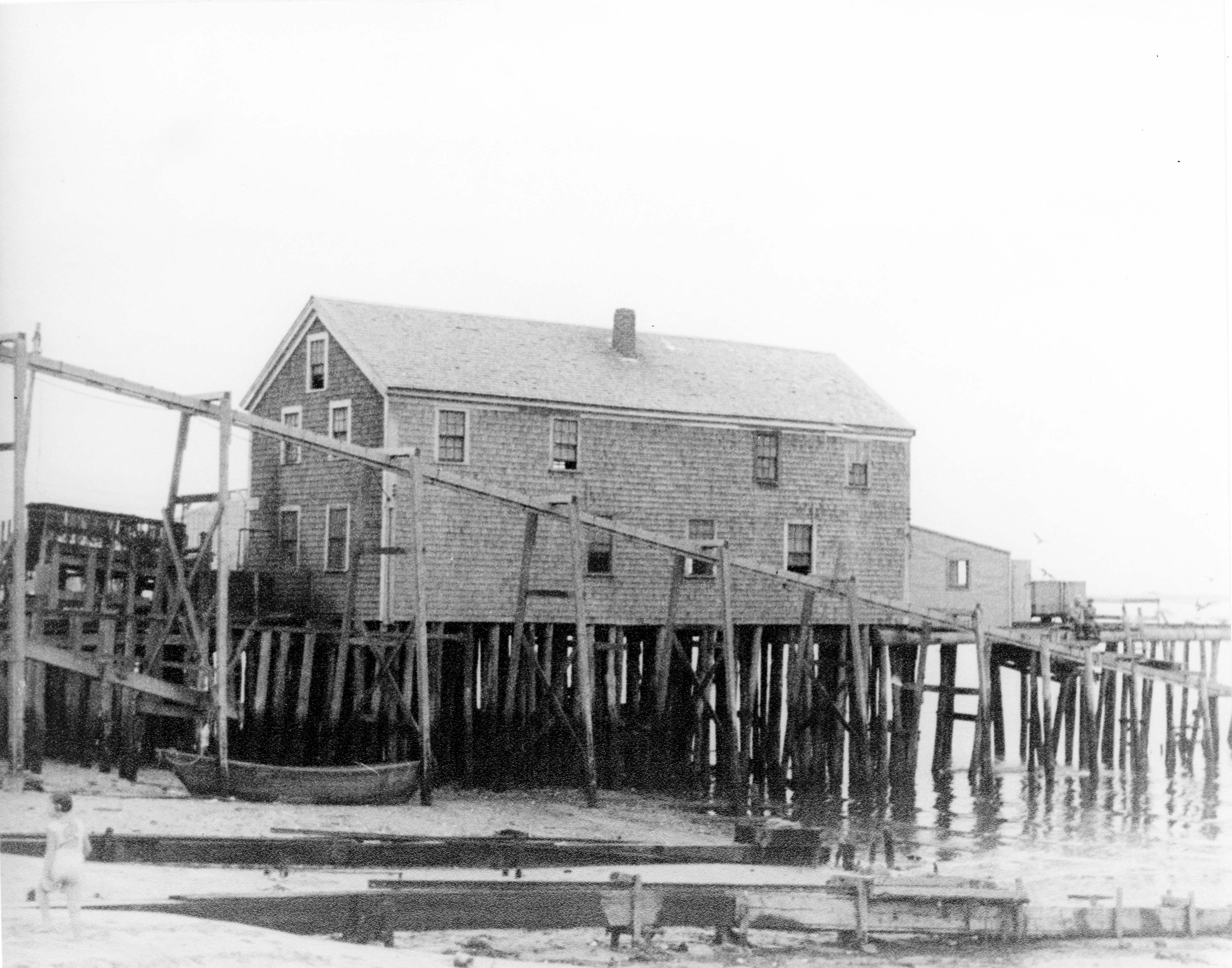 Carl Van Vechten, photograph of the Provincetown Theatre in Provincetown, Massachusetts